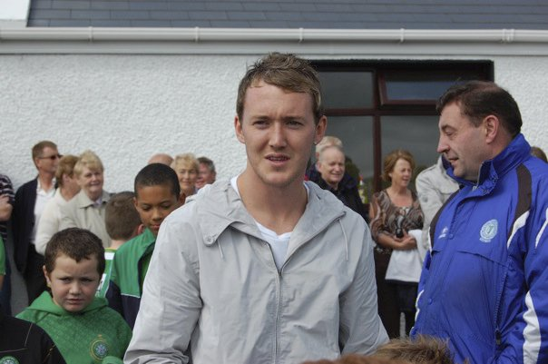 This picture was taken of Aiden McGeady when he opened Gweedore Celtic's new pitch.